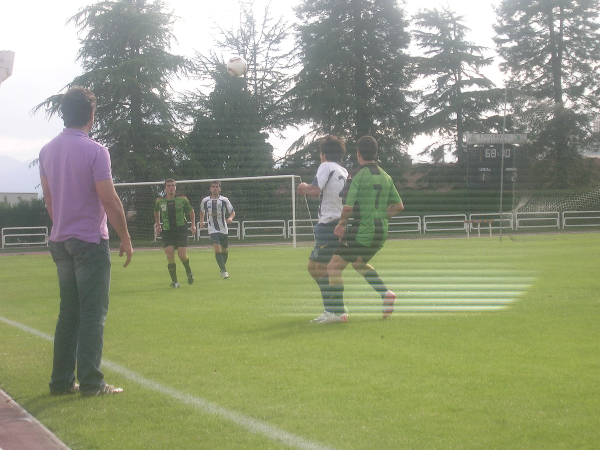 Último partido del "Uni B" en la temporada 2011-12 ante el SCD Campomanes en el Estadio Universitario San Gregorio.